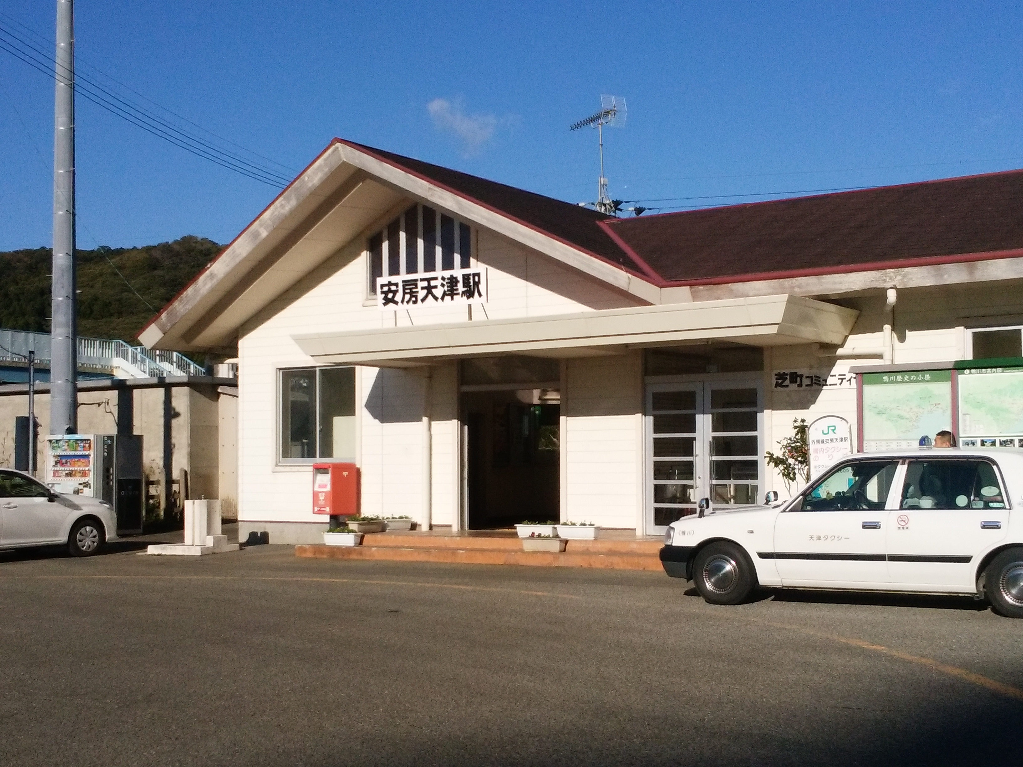 Amatsu, Kamogawa, Chiba Prefecture 299-5503, Japan